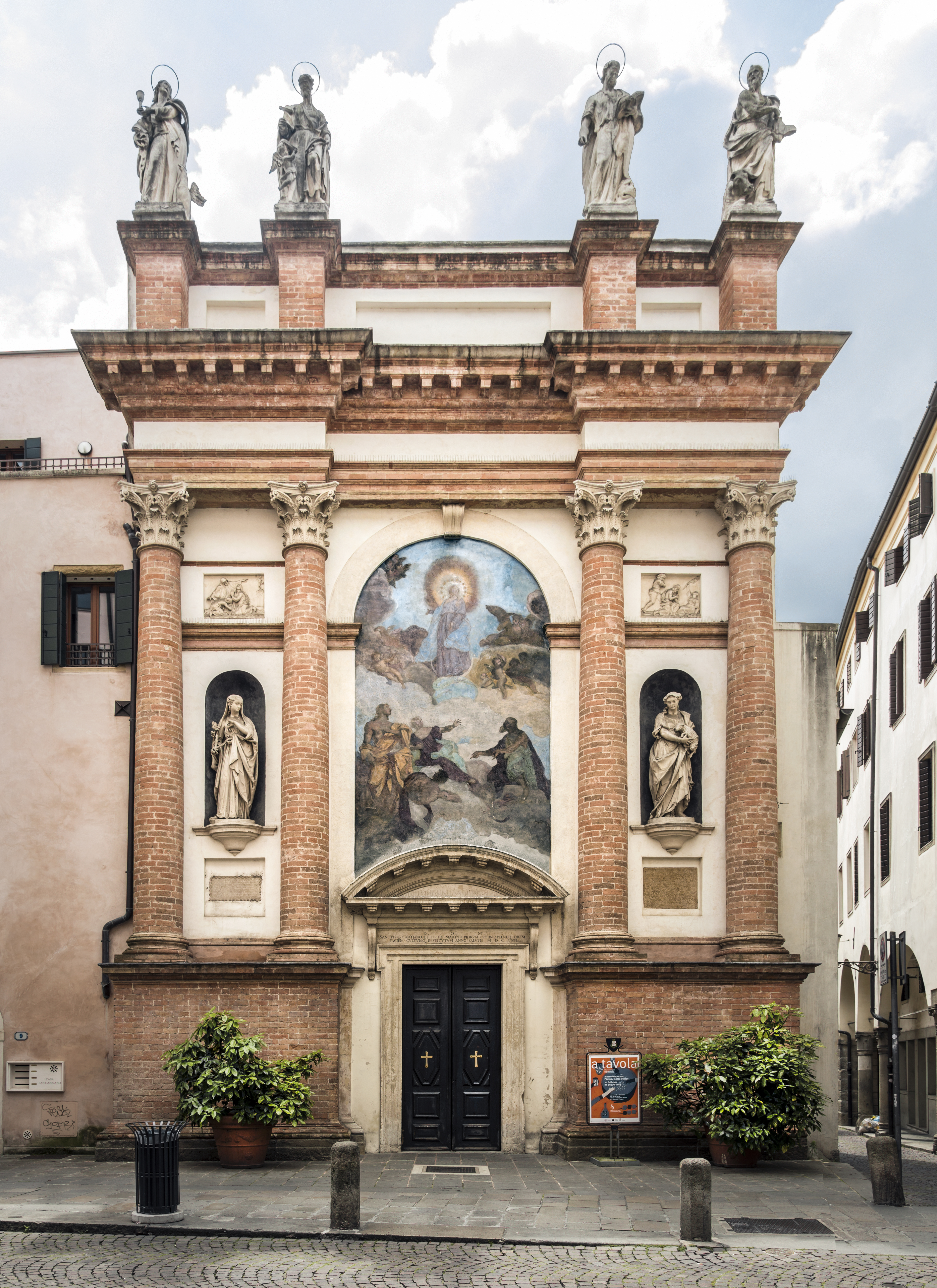 Church San Canziano in Padua - Facade on Piazza delle Erbe.